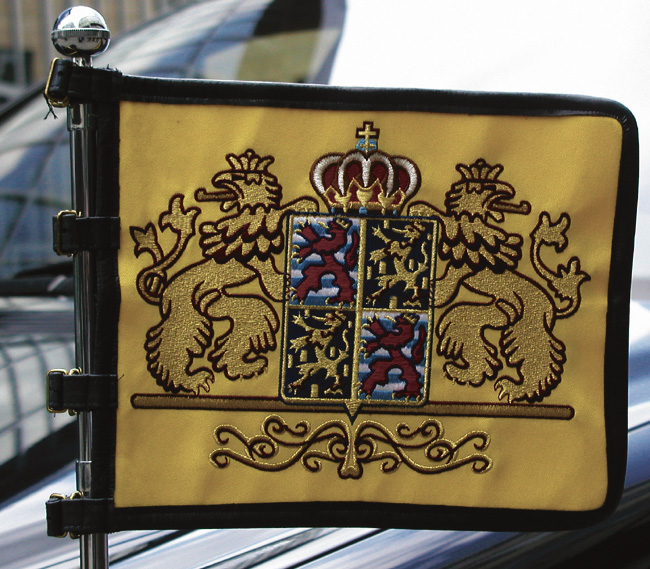 Royal Standard of Luxembourg (Car Flag)